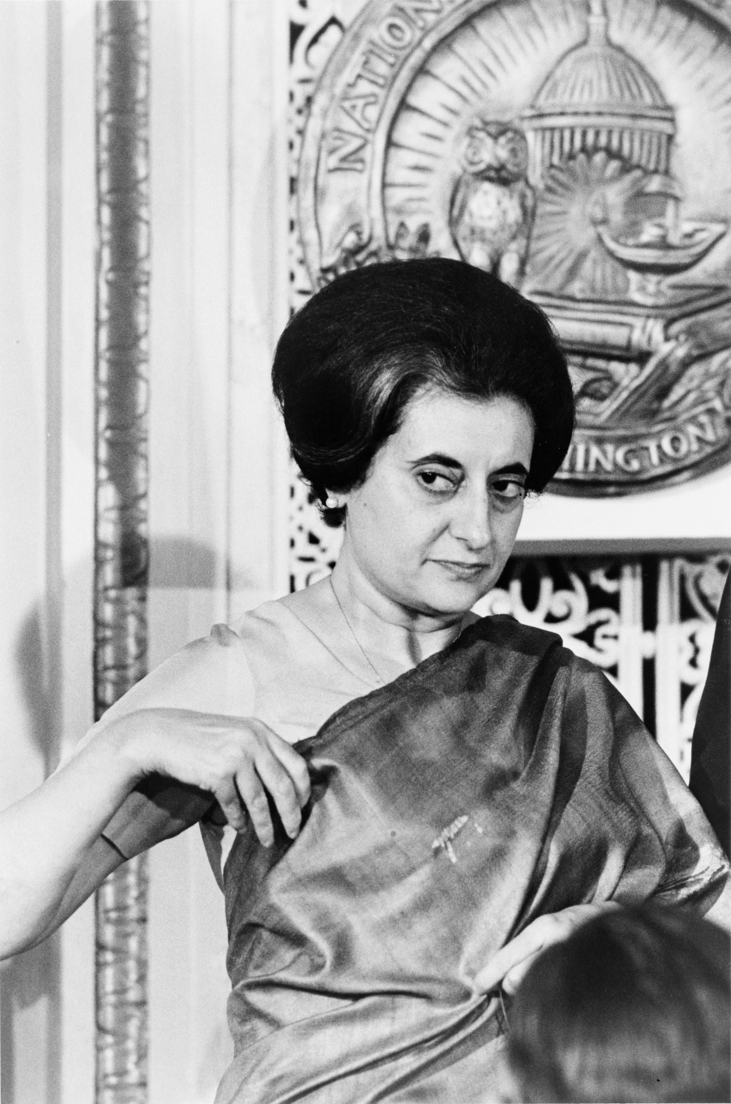 Indian Prime Minister Indira Gandhi (1917-1984) at the National Press Club, Washington, D.C. 1n 1966